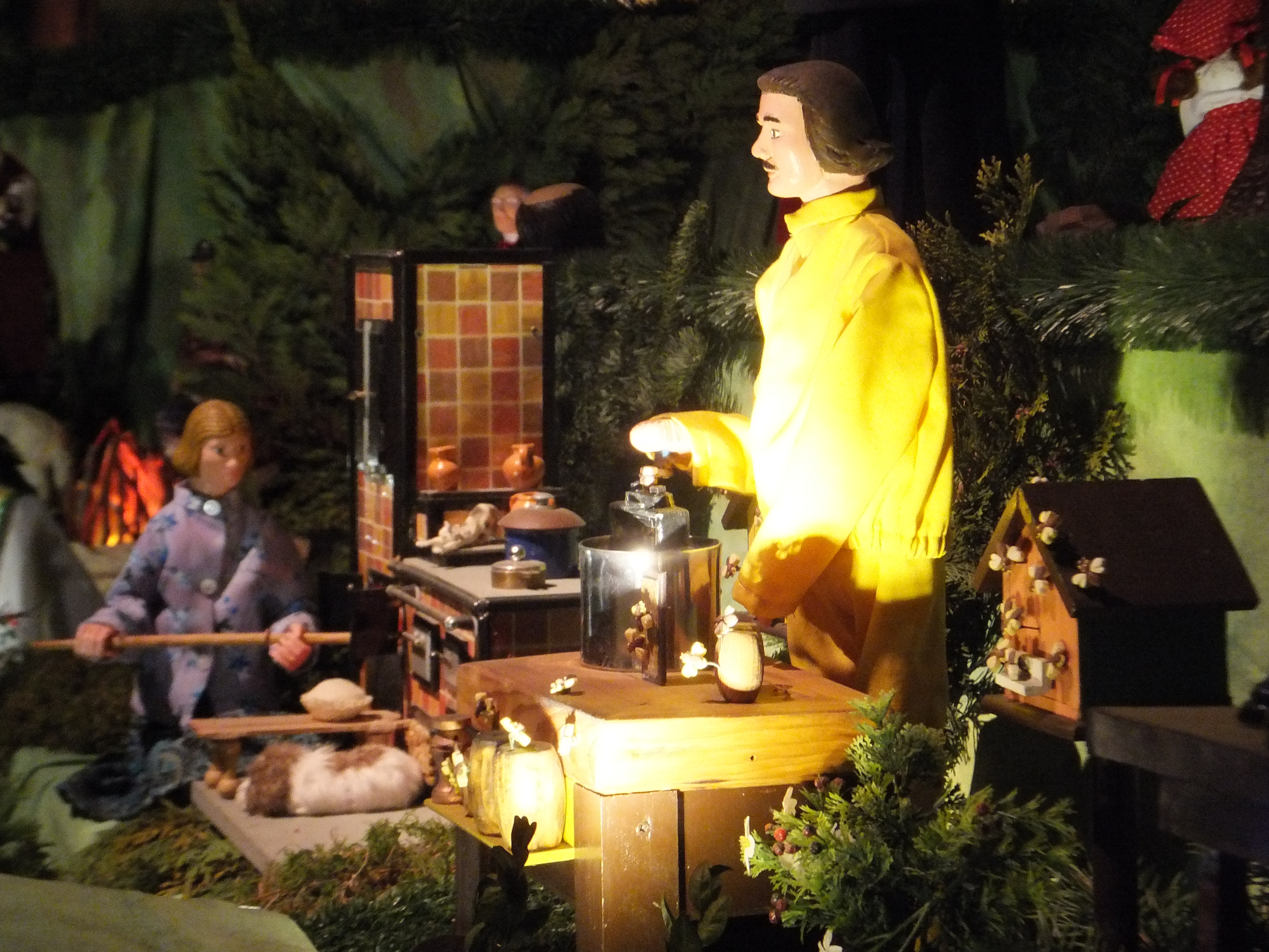 Moving crib in Saint Bartholomew church in Bieruń (Poland). Moving crib is built every year since 1955. It consists of more than 100 figures (most of the figures moving).